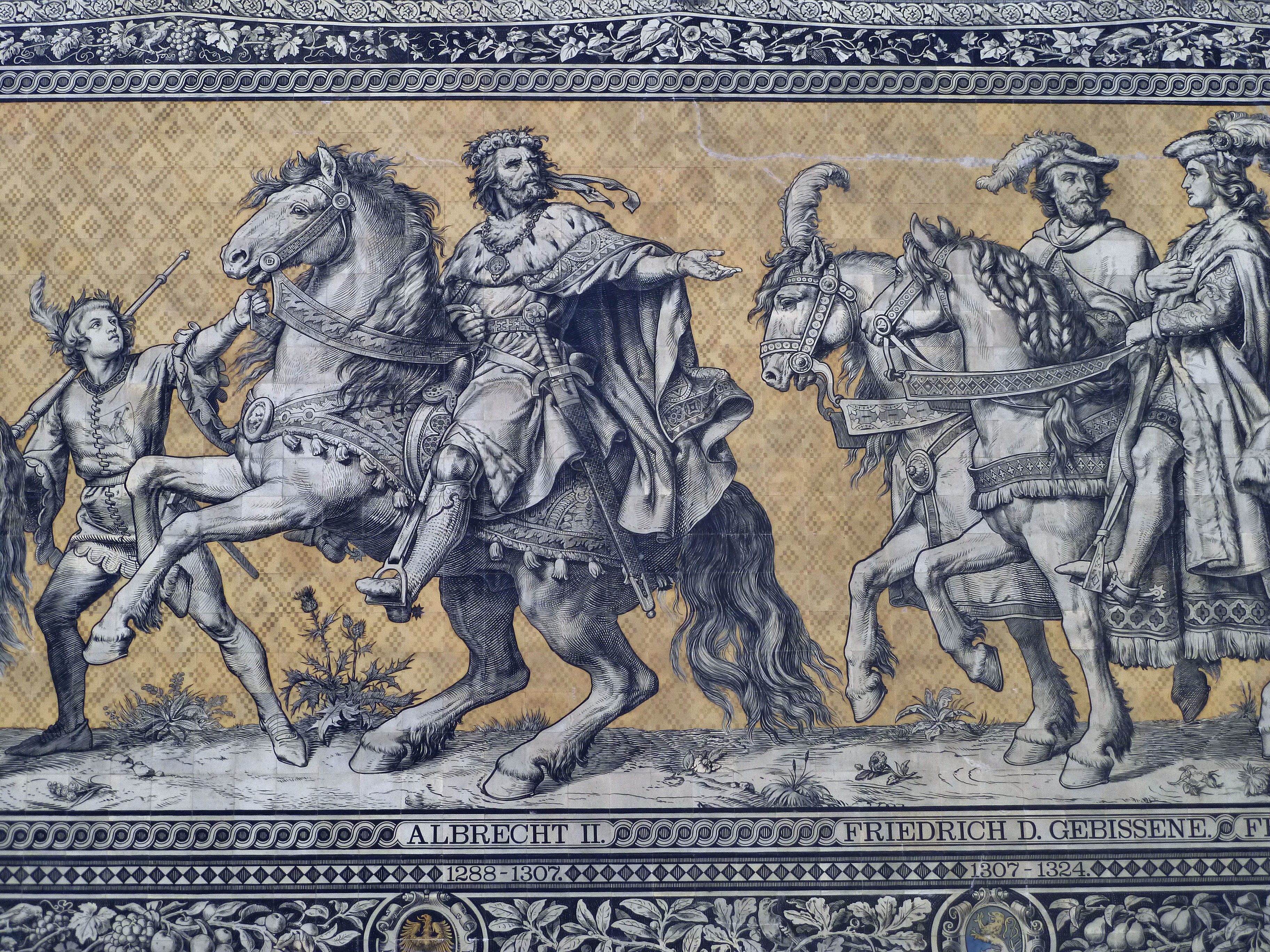 Albert II, Margrave of Meissen (1288–1307) and Frederick I, Margrave of Meissen (1307–1324); Fürstenzug, Dresden, Germany